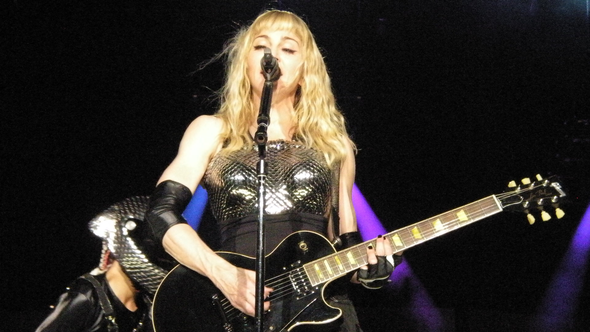 Madonna performs "Ray of Light" in Sofia